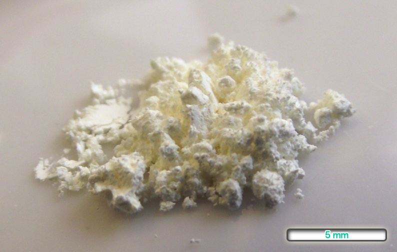 Photo of Amiloride-Hydrochloride, pure